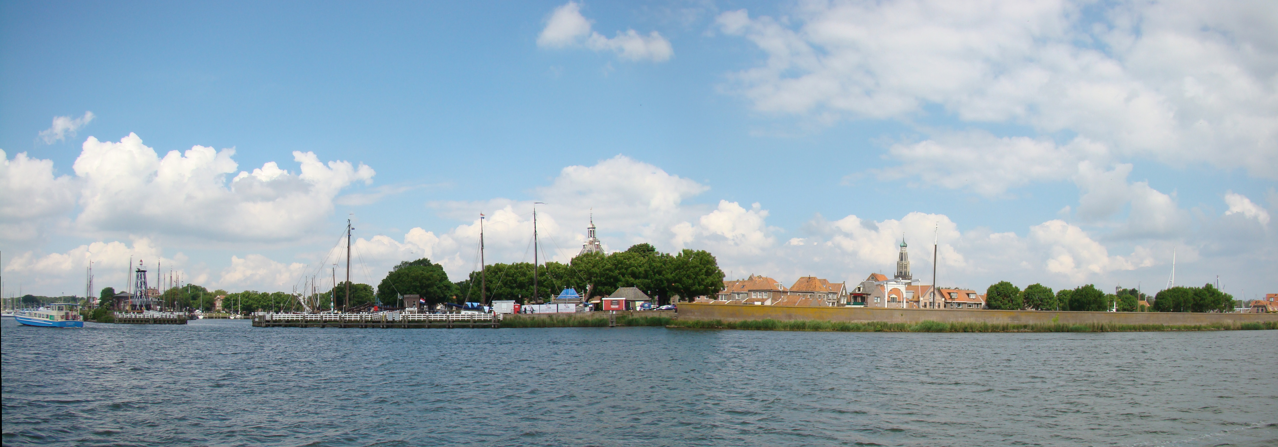 Panoramic view of Enkhuizen, The Netherlands